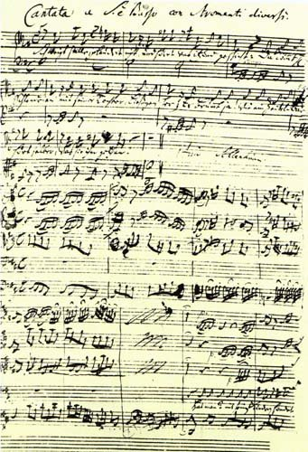 Caption of J. S. Bach's Coffee Cantata (Schweigt stille, plaudert nicht, BWV 211)